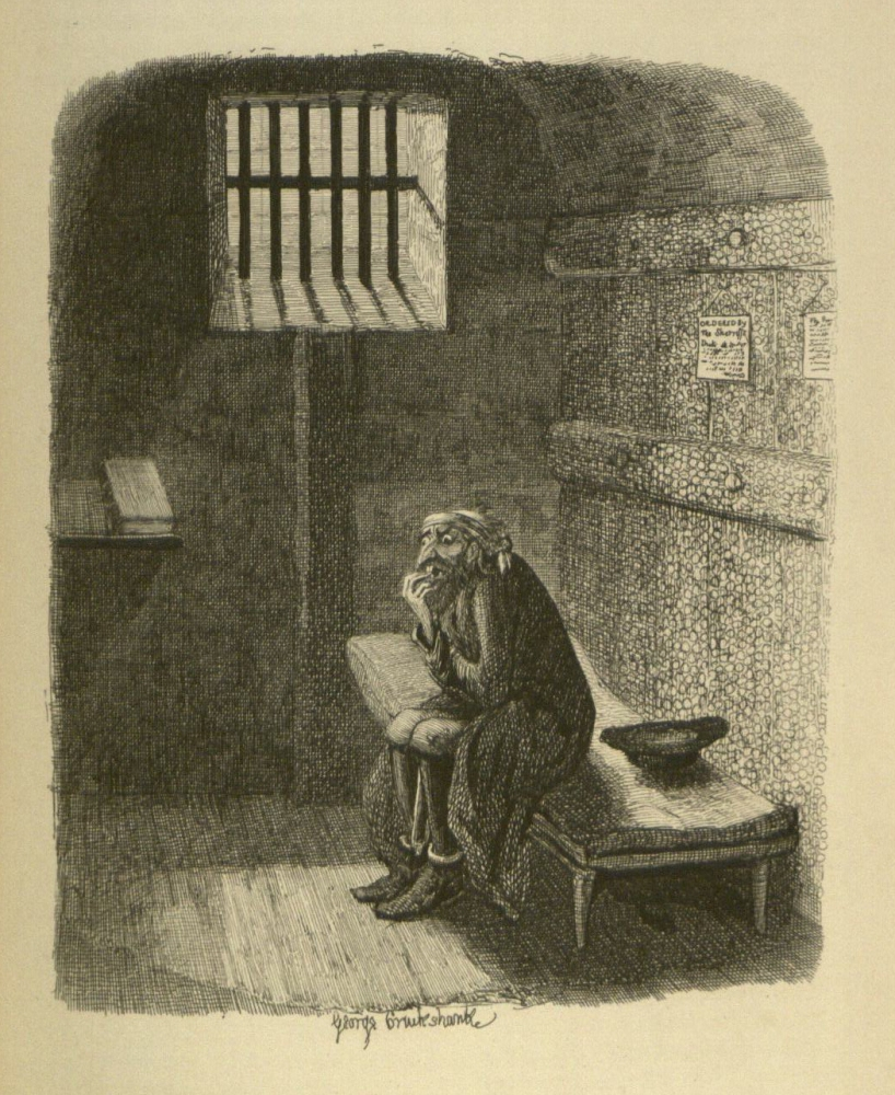 Fagin in his cell. Copperplate engraving, 1838.